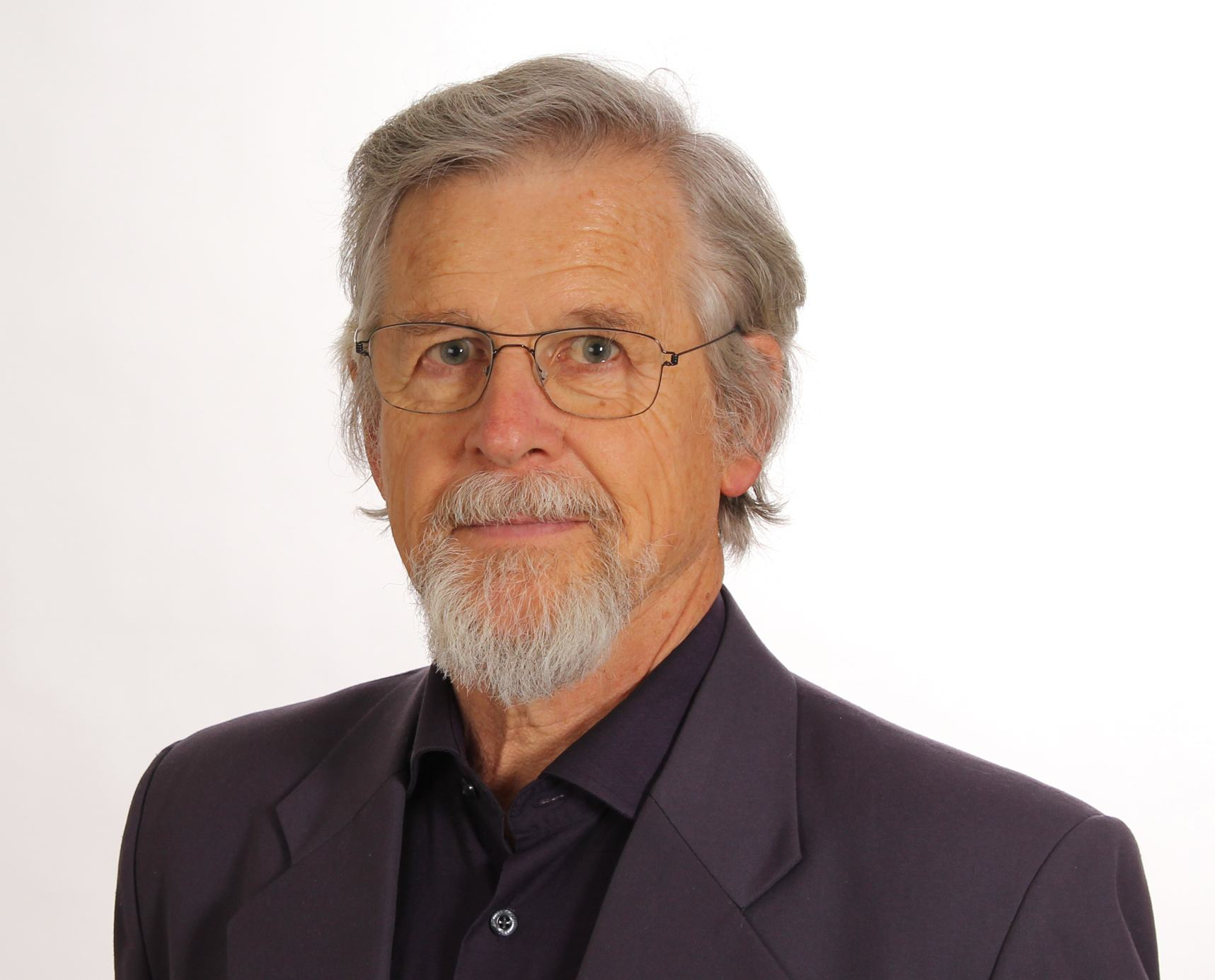 Prof. Robert Phillipson